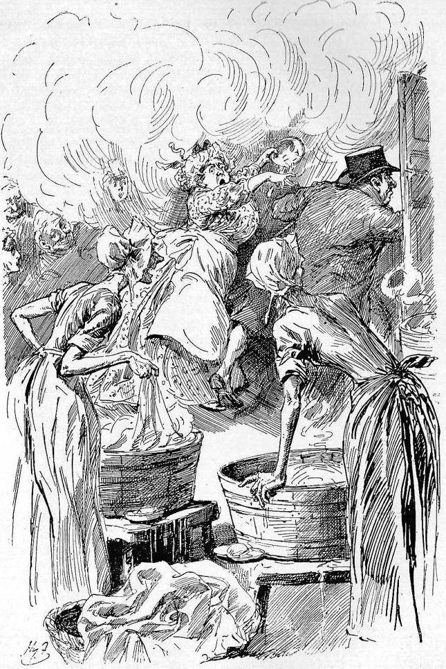 The Adventures of Oliver Twist in Oliver Twist and A Child's History of England, Charles Dickens Library Edition (1910), vol. 3, facing p. 272. - Harry Furniss (1854-1925)